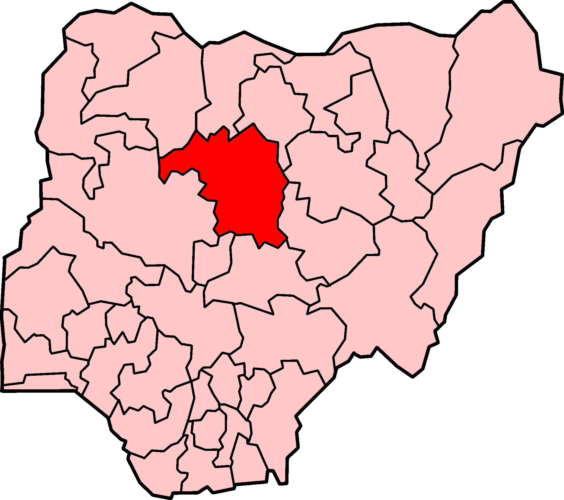 Locator map for Kaduna state, within Nigeria